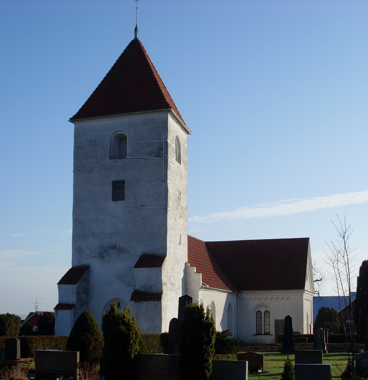 The church of Torna Hällestad in southern Sweden